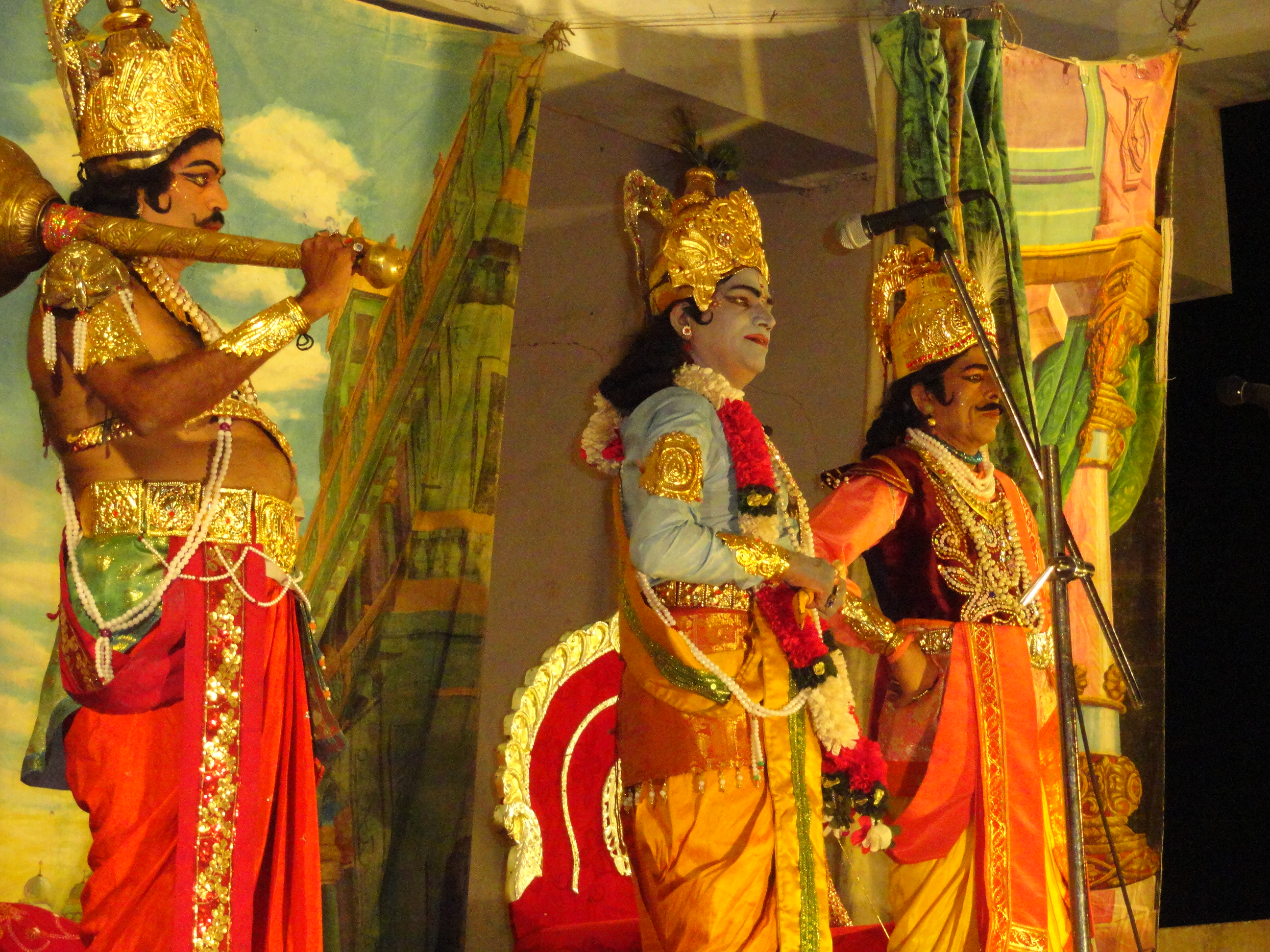 A scene in a drama. Srikrishna Rayabaram. Dhuryodhana, srikrishna and arjuna in the scene: picture at Vanasthalipuram. hyd.